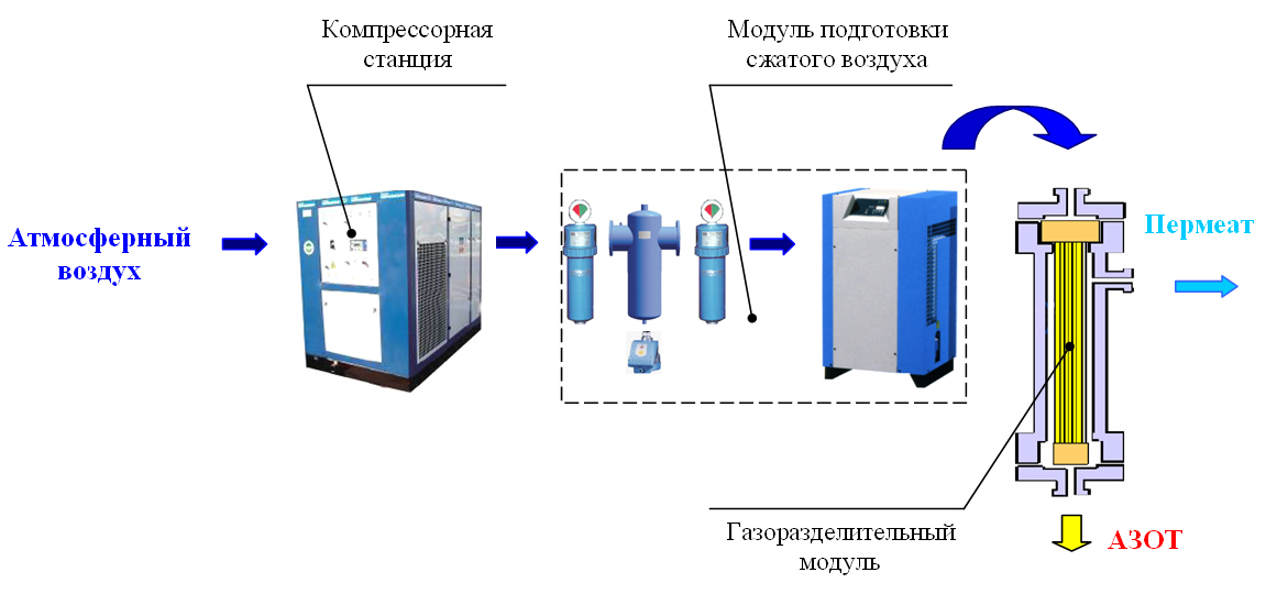 Membrane circuit